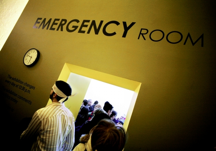 Picture of the artwork Emergency Room by French-Danish artist Thierry Geoffroy